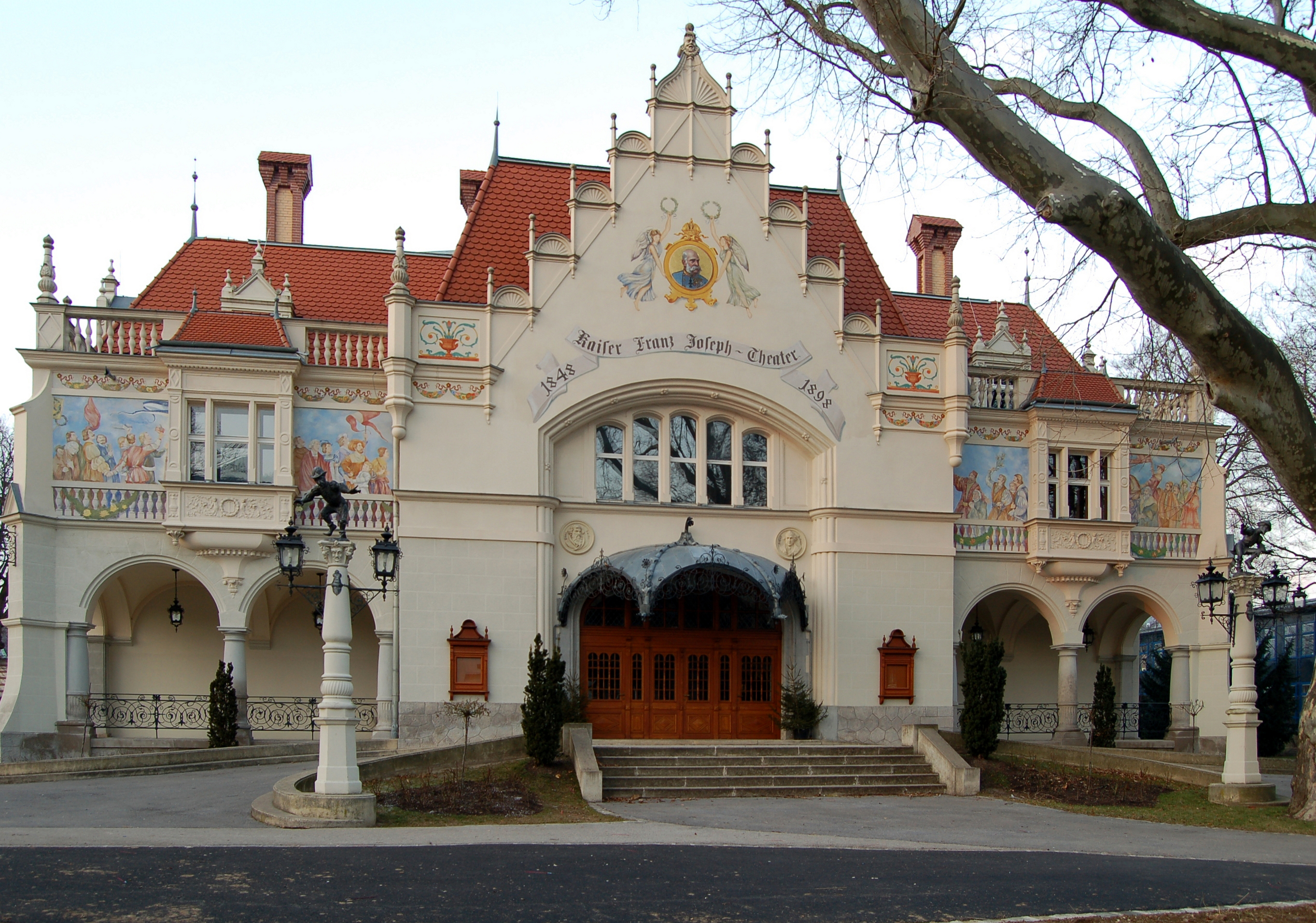 Main facade of the Stadttheater Berndorf, a theatre in Lower Austria built 1898.